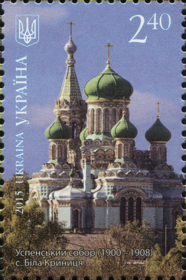 Stamps of Ukraine, 2015